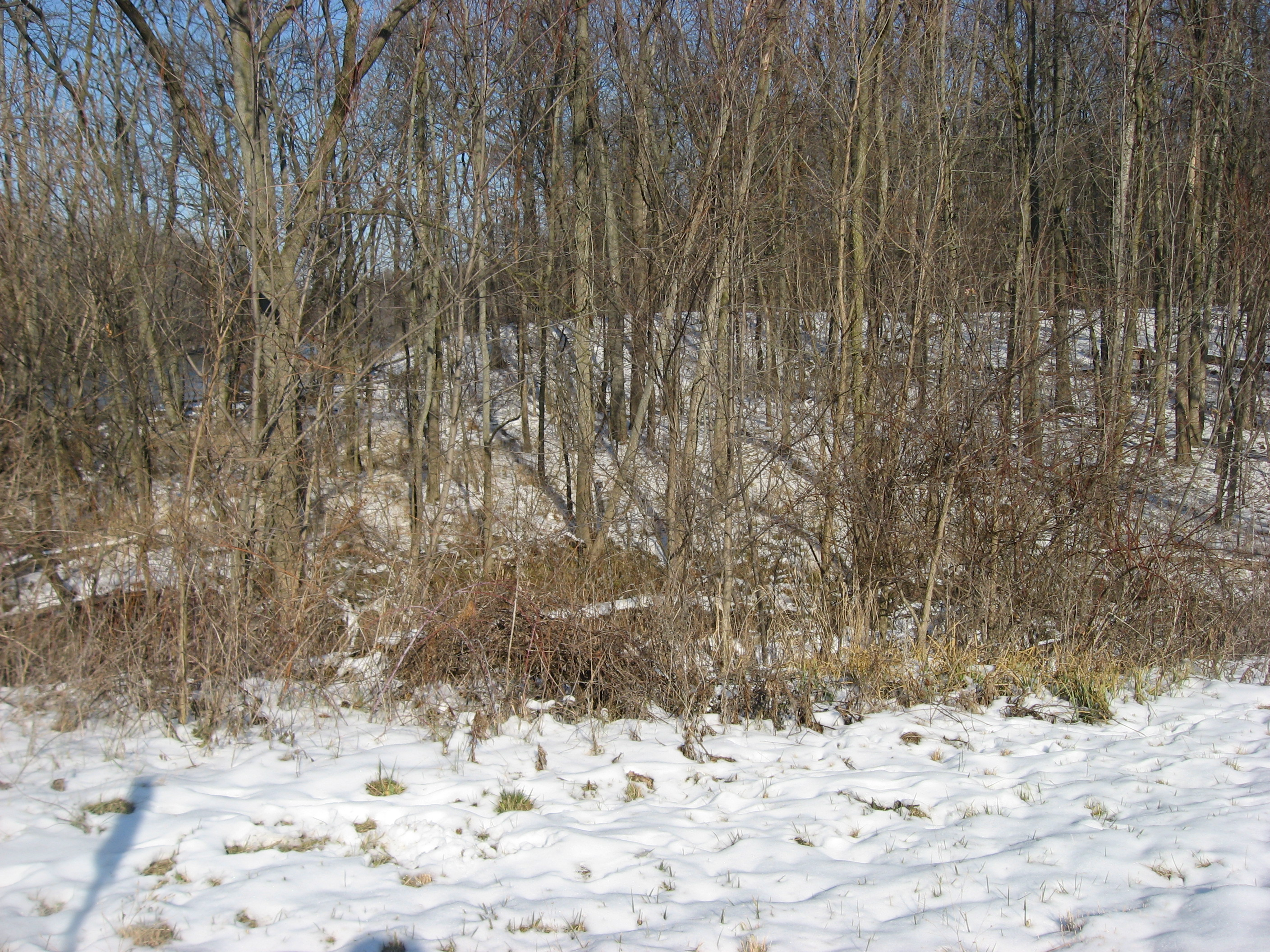 The ravine on the eastern portion of the Brooke Site, located along Watson Road south of Defiance in Defiance Township, Defiance County, Ohio, United States. Brooke is an archaeological site and listed on the National Register of Historic Places.